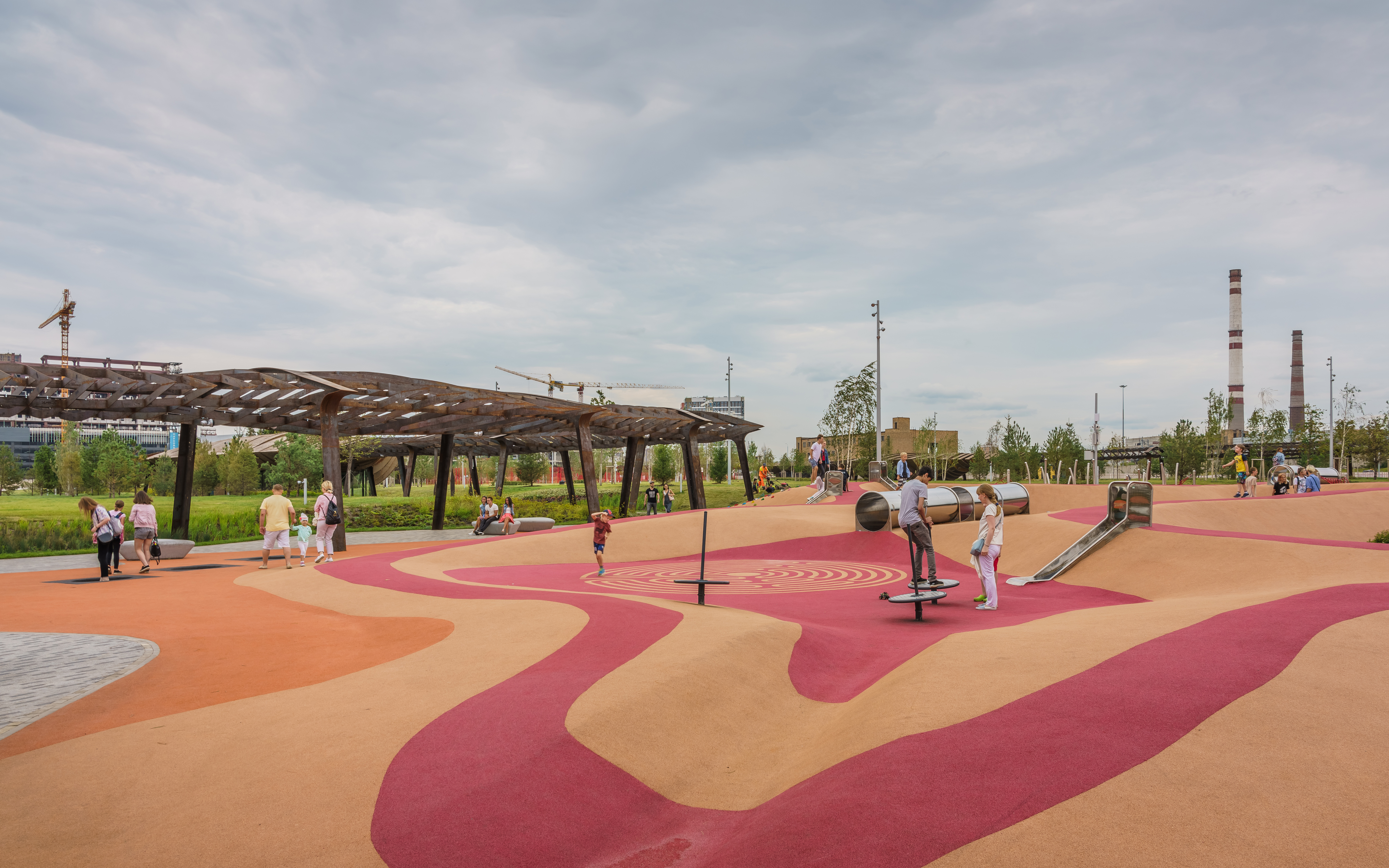 Tyufeleva Grove Park on former ZiL factory area in Moscow, Russia